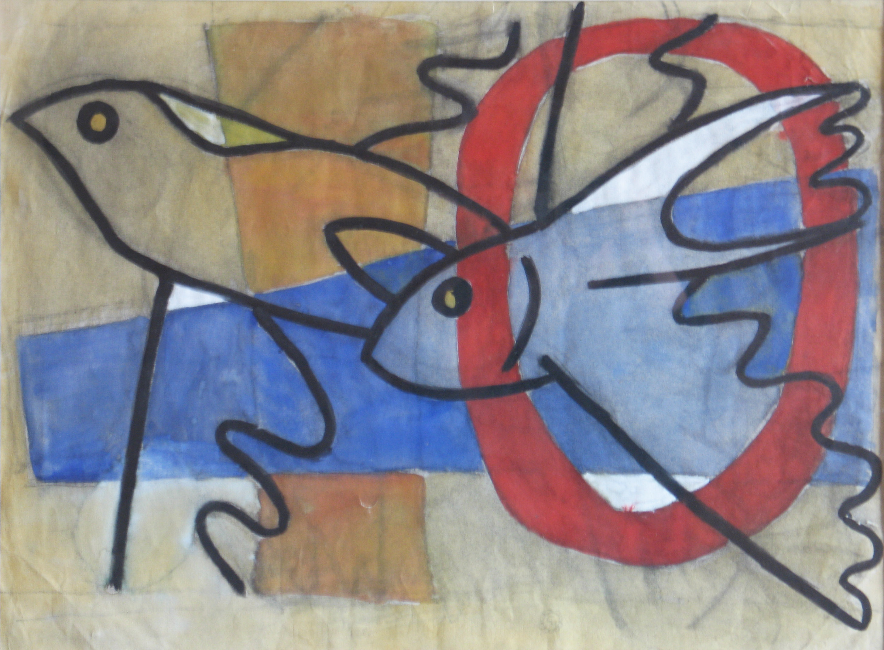 Work of art by Gudrun Roos Tiller. No title. Charcoal and water colour on paper. Size: 46x62 cm. Early fifties